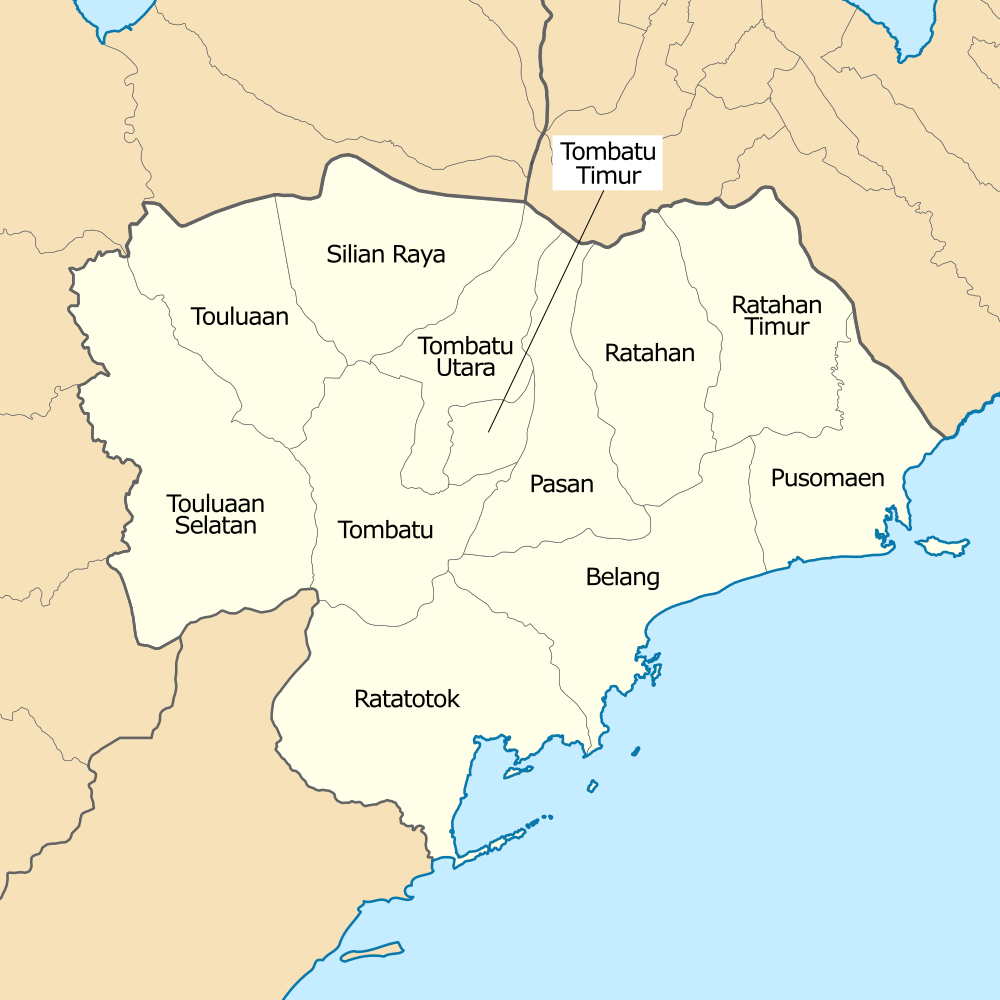 Map of sub-districts in Southeast Minahasa Regency, North Sulawesi, Indonesia. Map data from tanahair.indonesia.go.id and kpu-sulutprov.go.id.